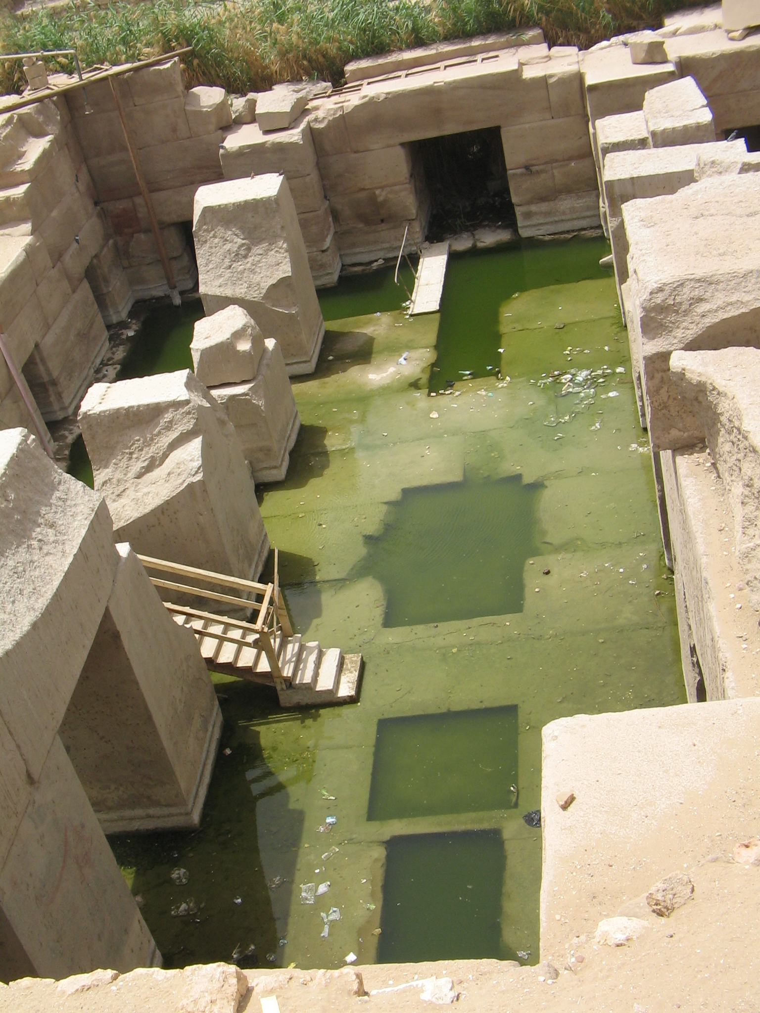 Temple of Seti I - Osireion - Abydos